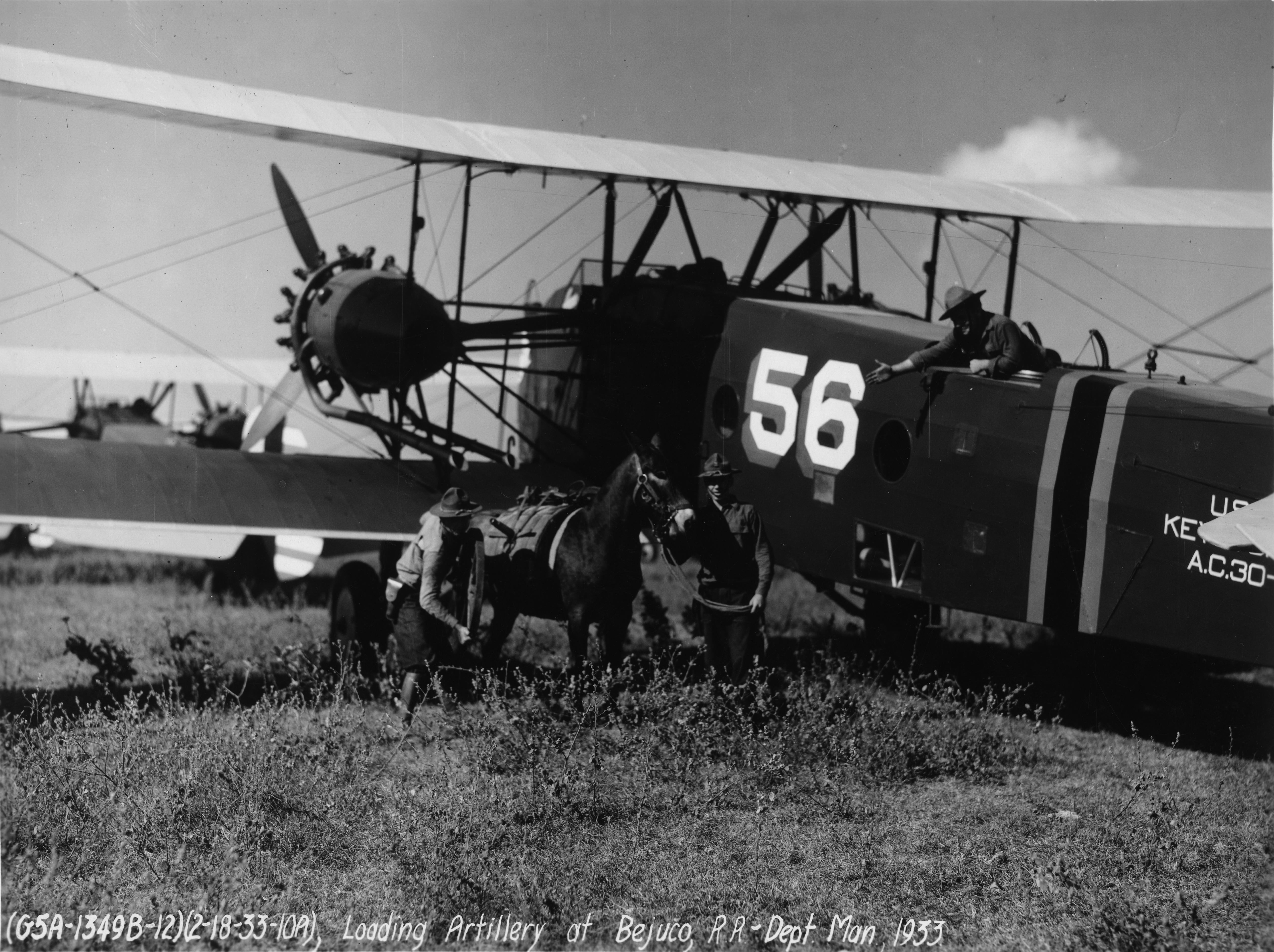 25th Bombardment Squadron Keystone Bomber 1933